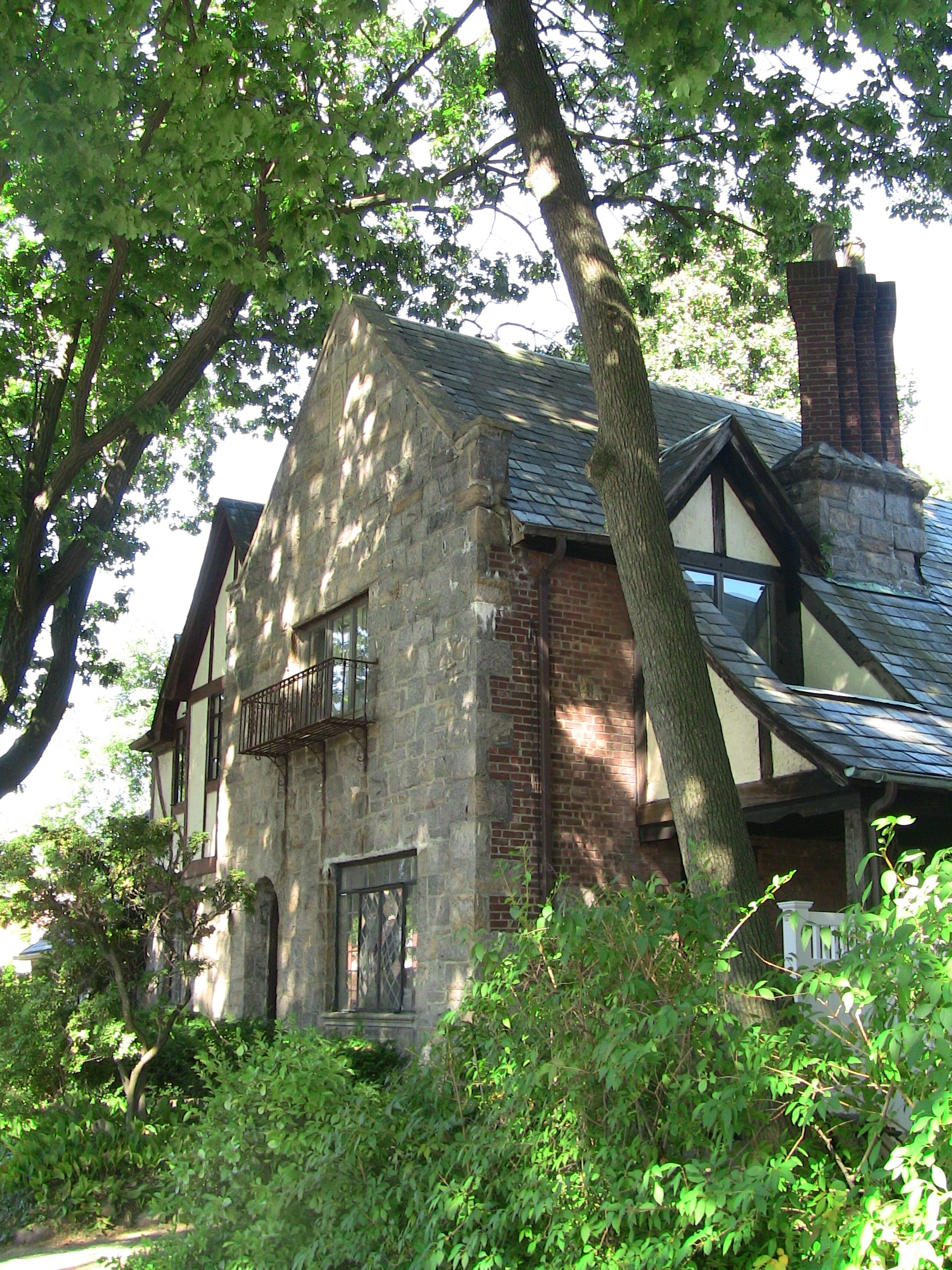 Broadway-Flushing Historic District, Roughly bounded by 29th Ave., 163rd St., 32nd Ave., 192nd St., 154th and 153rd Sts. Flushing